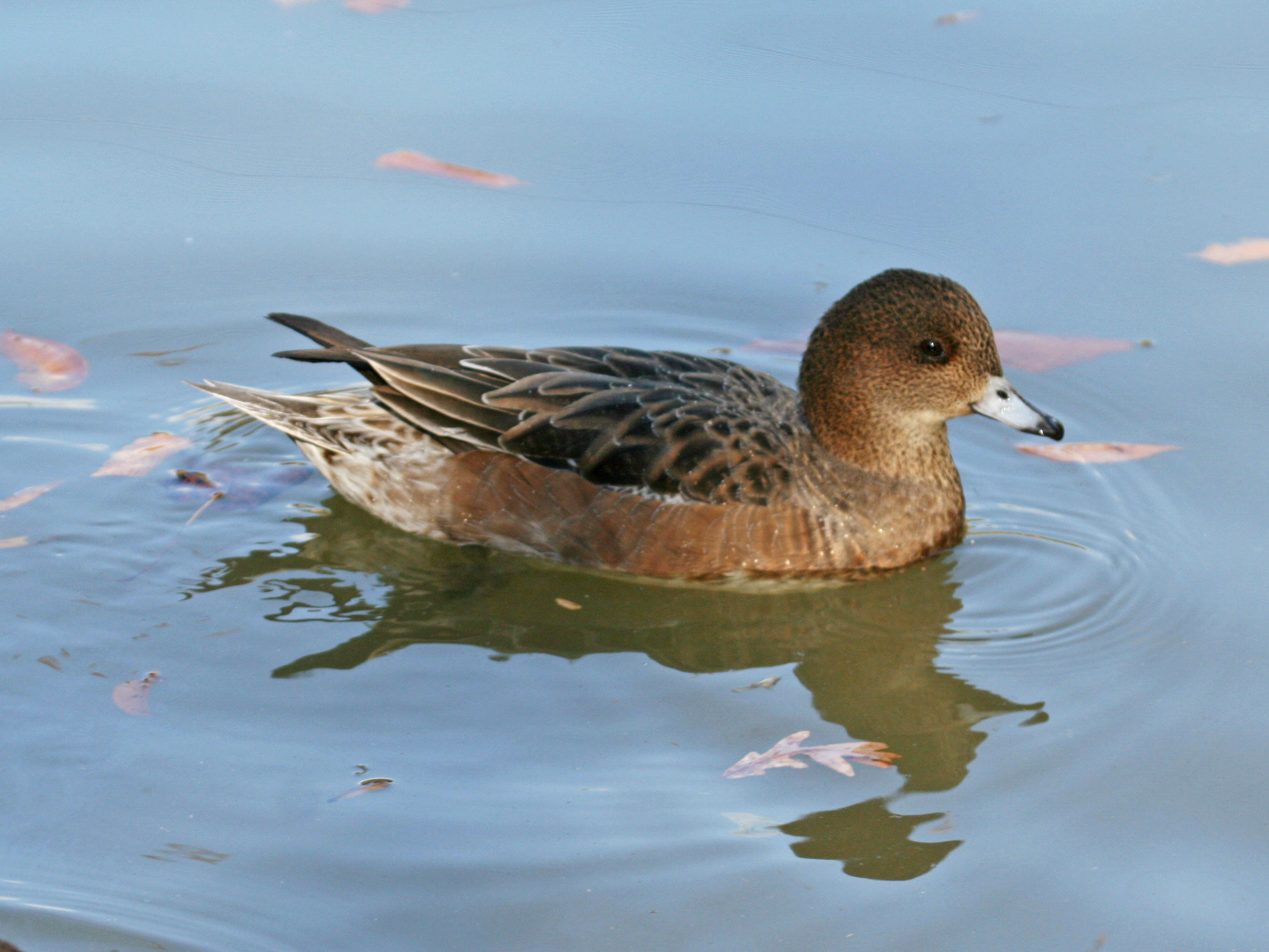 ♀ Eurasian Wigeon (Anas penelope) at Sylvan Heights Waterfowl Park in Scotland Neck, North Carolina.